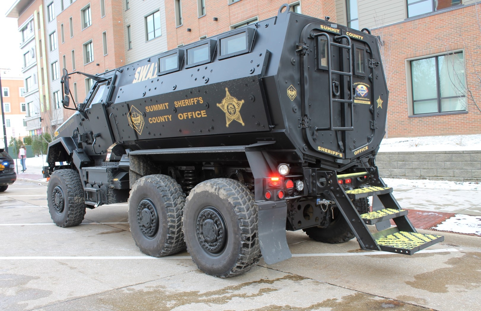 Summit County Ohio Sheriffs Office SWAT vehicle